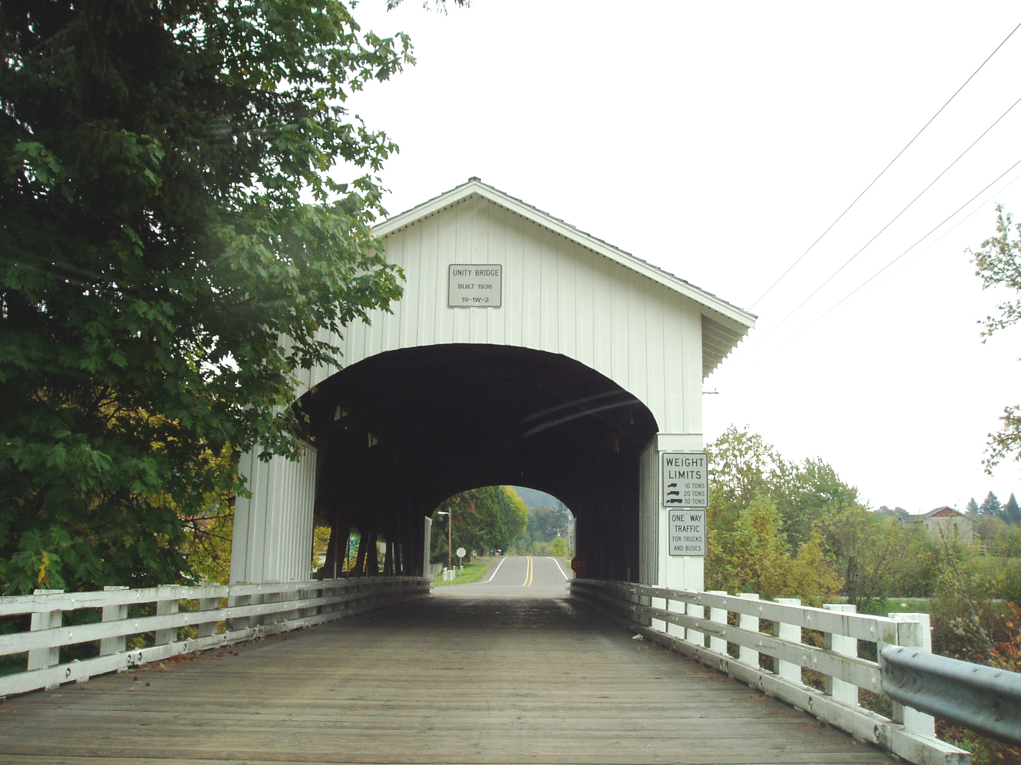 The Unity Bridge, a bridge over Big Fall Creek in Lane County, Oregon, listed on the National Register of Historic Places